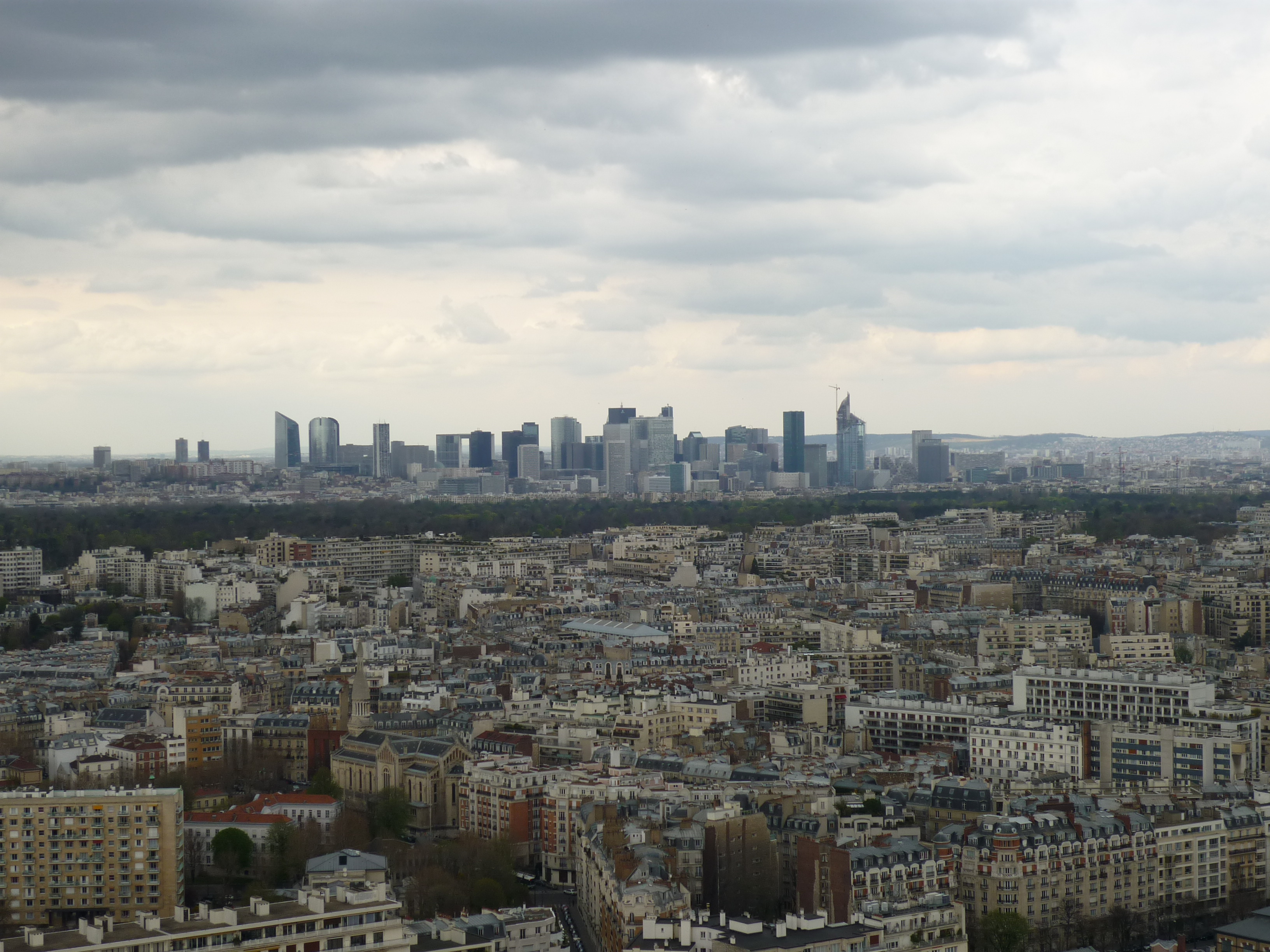 Large view of La Défense